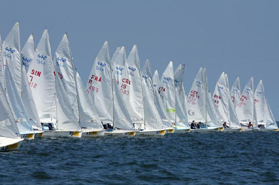 partenza del mondiale 470